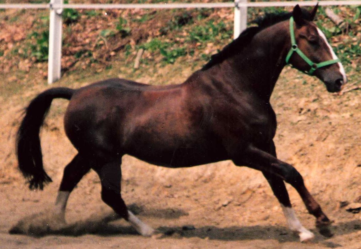 Dark Shadow, westphalian